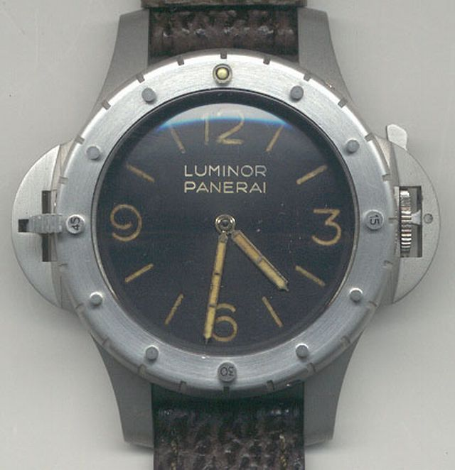 This work is free and may be used by anyone for any purpose. If you wish to use this content, you do not need to request permission as long as you follow any licensing requirements mentioned on this page.